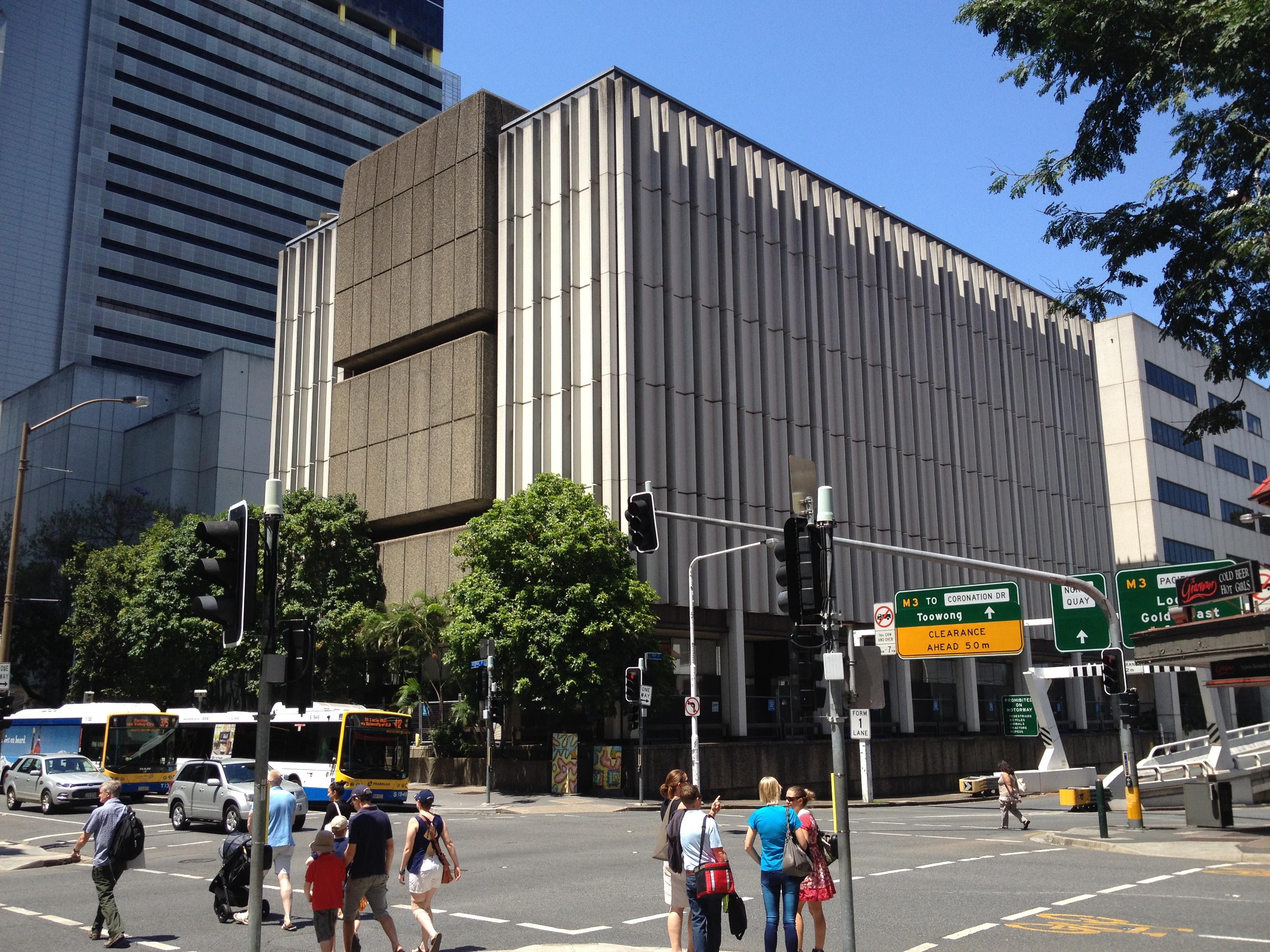 Former Law Courts, Brisbane in 11.2013, seen from intersection of Ann Street, Brisbane with George Street, Brisbane